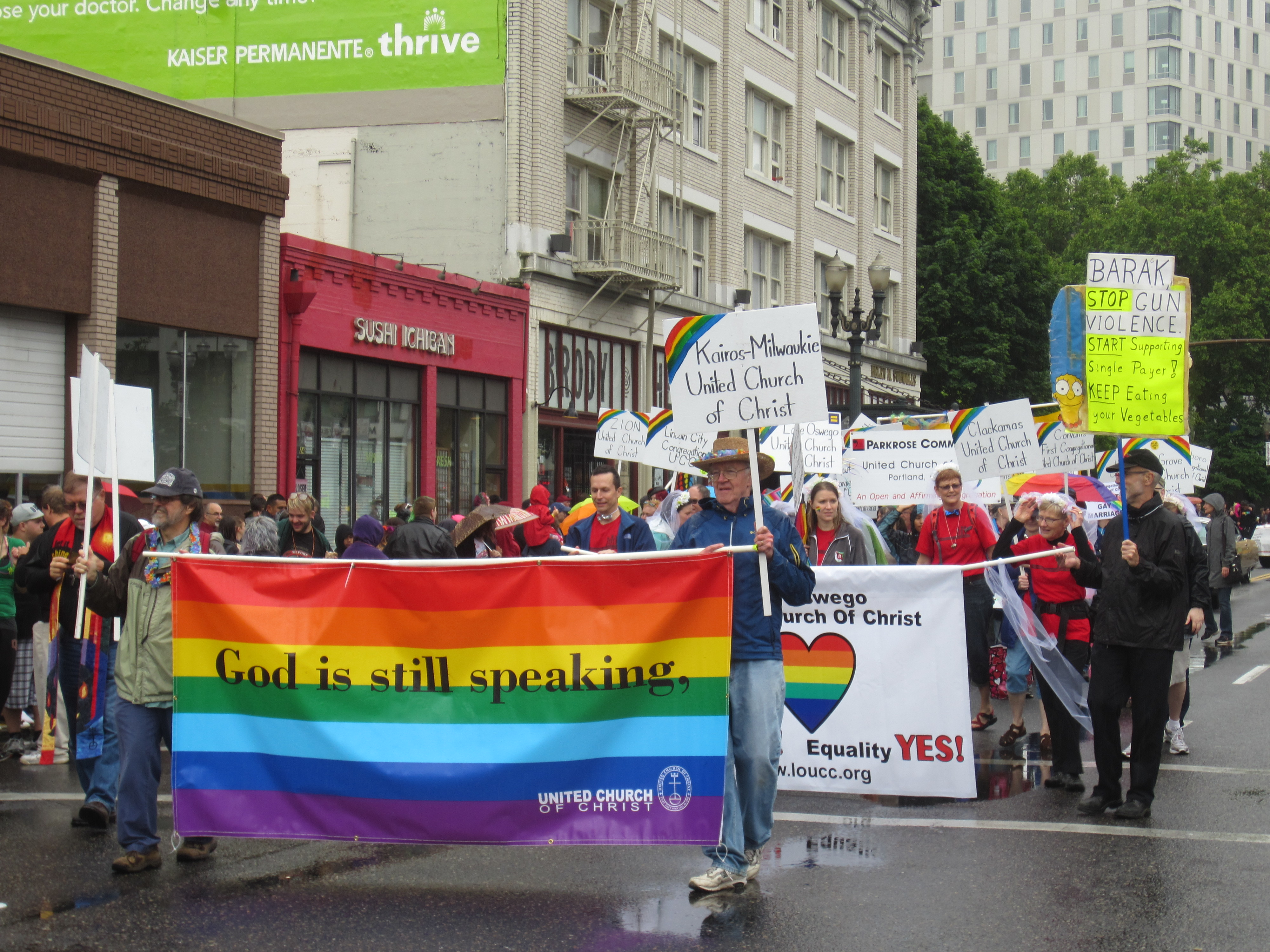 Portland Pride Parade (Oregon), June 14, 2014